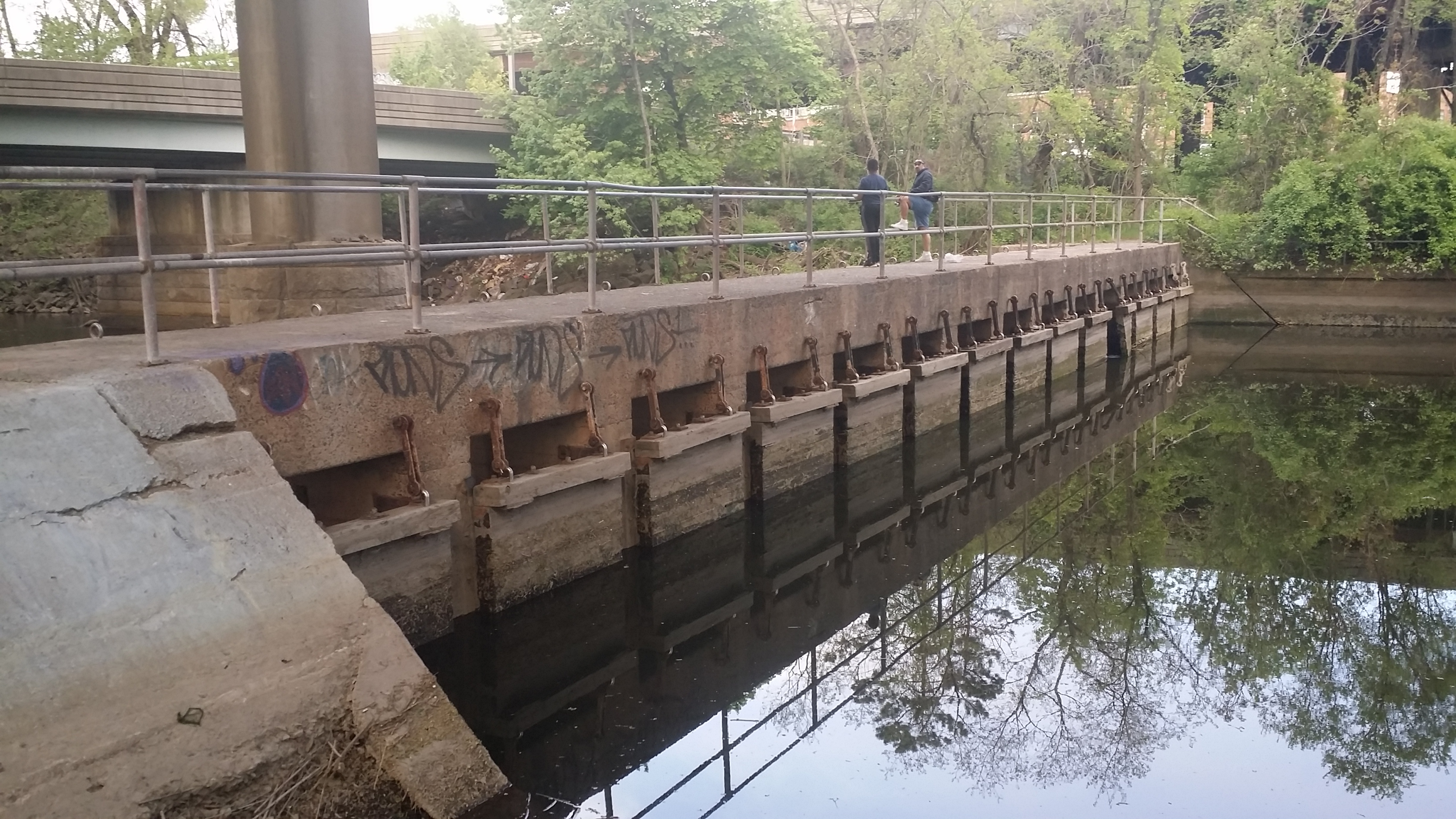 The tide gates on the Mill River seen at slack tide